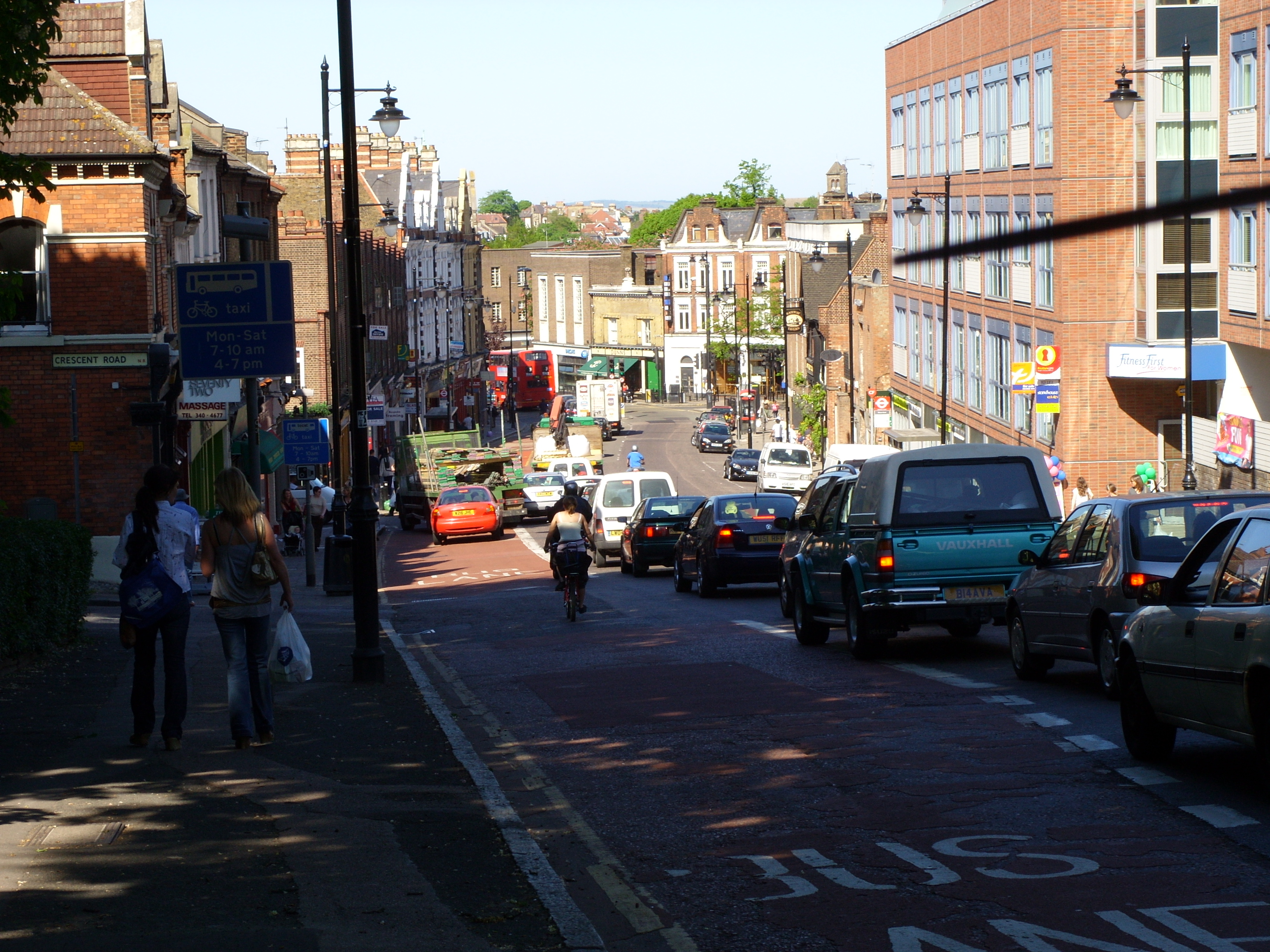 View north from Crouch End Hill towards Crouch Hill